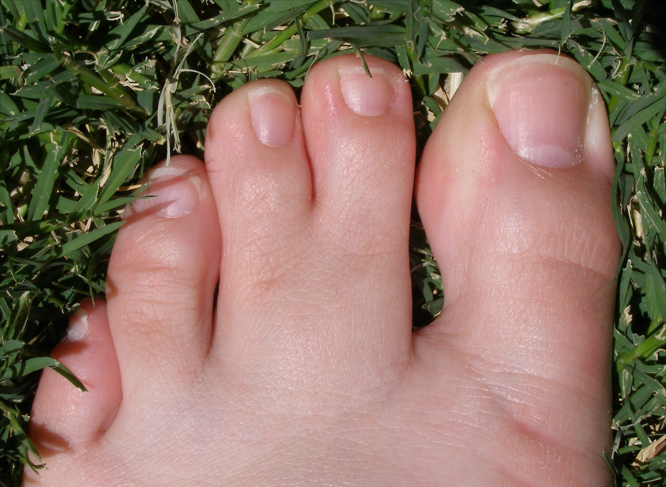 The effect of lack of programmed cell death (Specifically apoptosis) on the toes of a human. A mutation caused the middle two toes to remain connected.